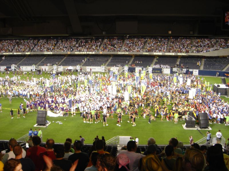 Gay Games VII